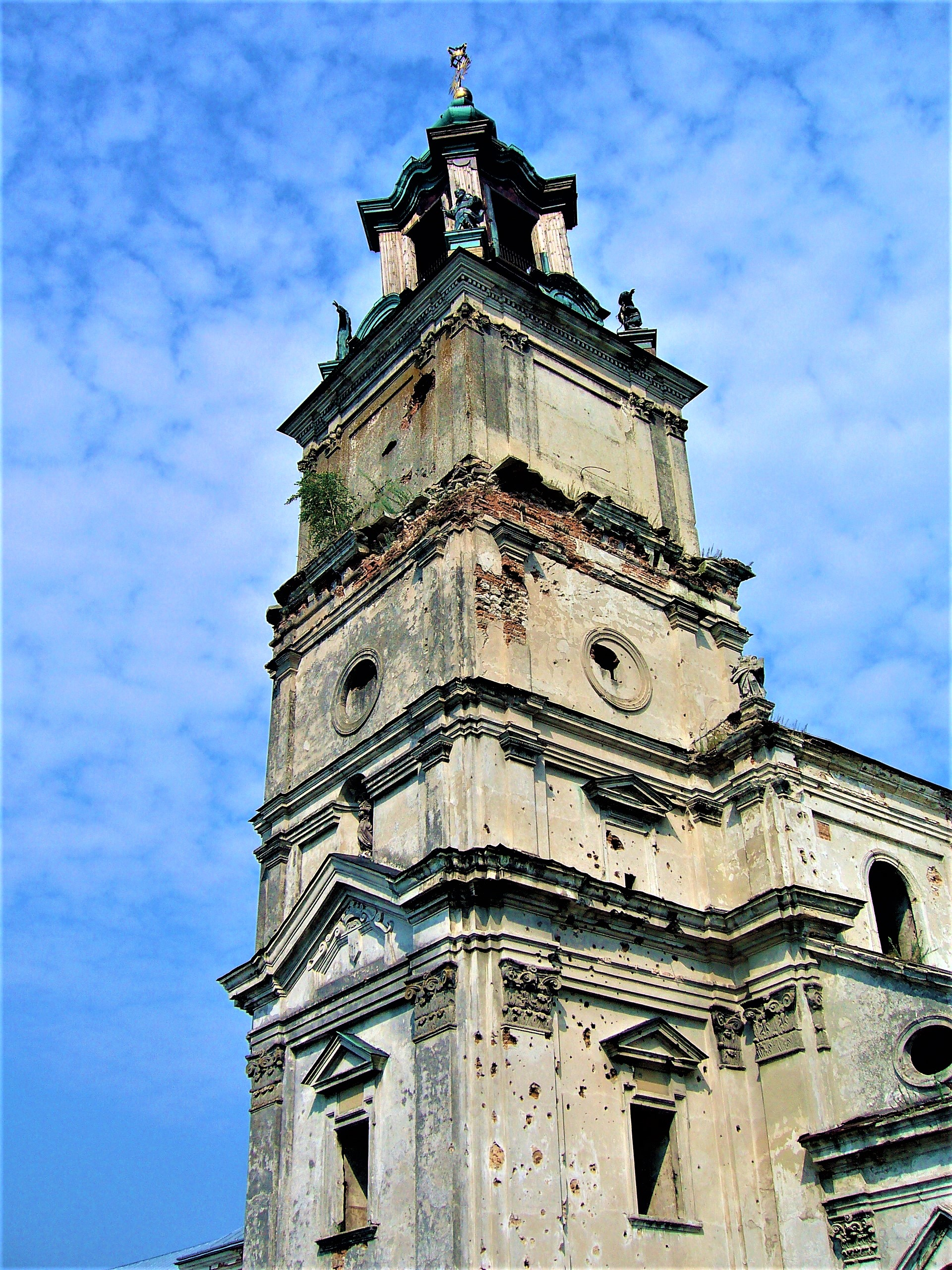 Pidkamin abbey near Brody in Lviv Oblast